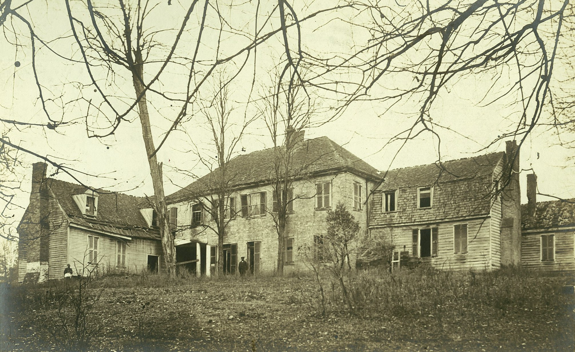 Photograph of Black Heath taken before 1915, perhaps in the late 1800s or early 1900s by Robert A. Lancaster Jr. The house was built in the late 1790s or 1800s by Harry Heth, a prominent coal businessman. Collapsed around the 1920s as a result of coal mines underneath the house and subsequently demolished. The site is just northeast of modern day Midlothian, Virginia